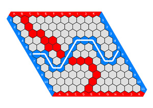 Wining situation on a Hex Board. Made from File:Hex board 11x11.svg